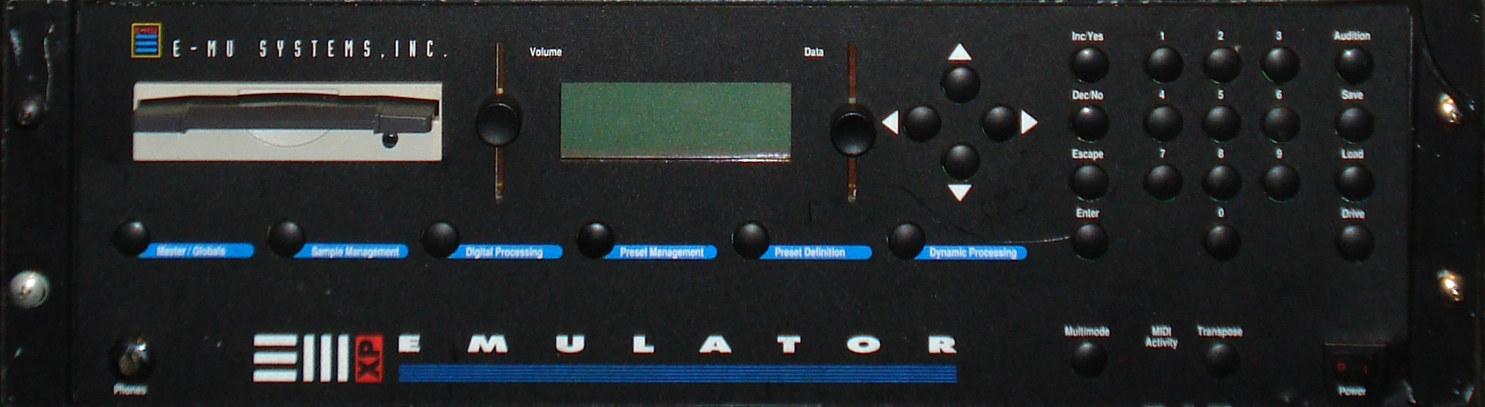 E-mu Emulator IIIXP (1993) Shawn Rudiman's Studio, Pittsburgh, PA